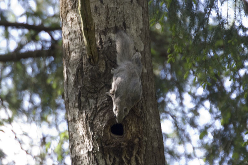 Siberian Flying Squirrel (Pteromys volans) going back into nest. Picture taken in Tampere, Finland